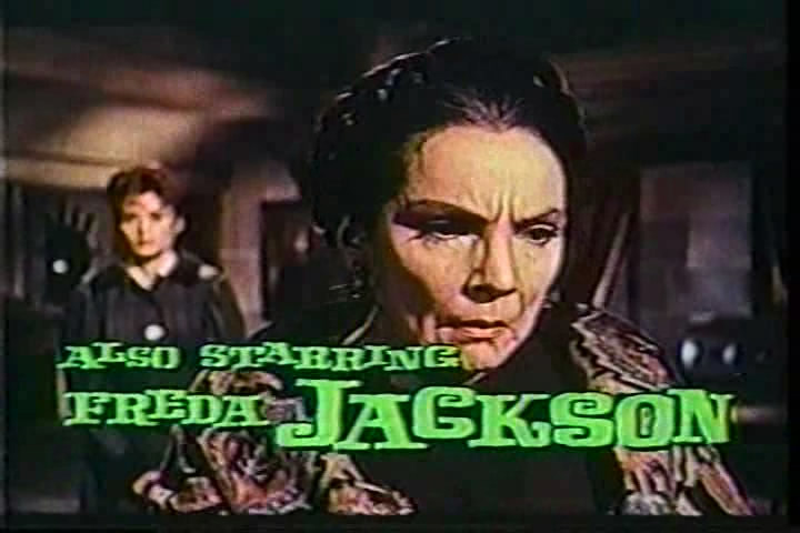 Screenshot of Freda Jackson from the trailer for the film The Brides Of Dracula